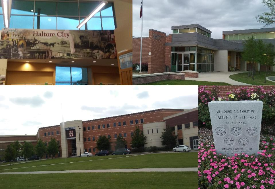 The following image or file is a collage of pictures taken in Haltom City in the following months from March to April 2016.